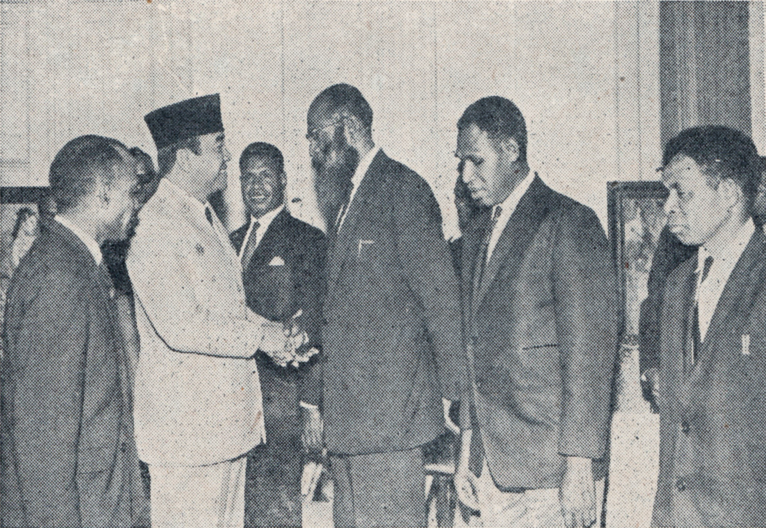 Sukarno shaking hands with Papuan leaders after Papua entered Indonesia